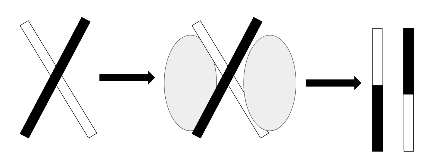 HJ resolvase function